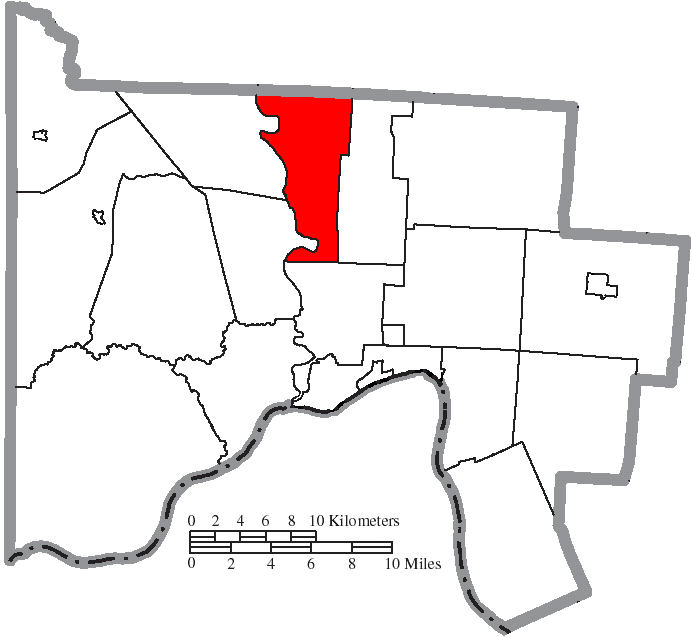 Map of the municipal and township boundaries of Scioto County, Ohio, United States, as of the 2000 census, with the location of Valley Township highlighted. Township borders are shown only in unincorporated areas in order to differentiate incorporated and unincorporated areas more clearly.